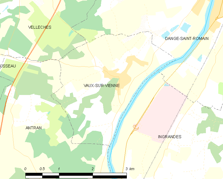 Map of French municipality Vaux-sur-Vienne